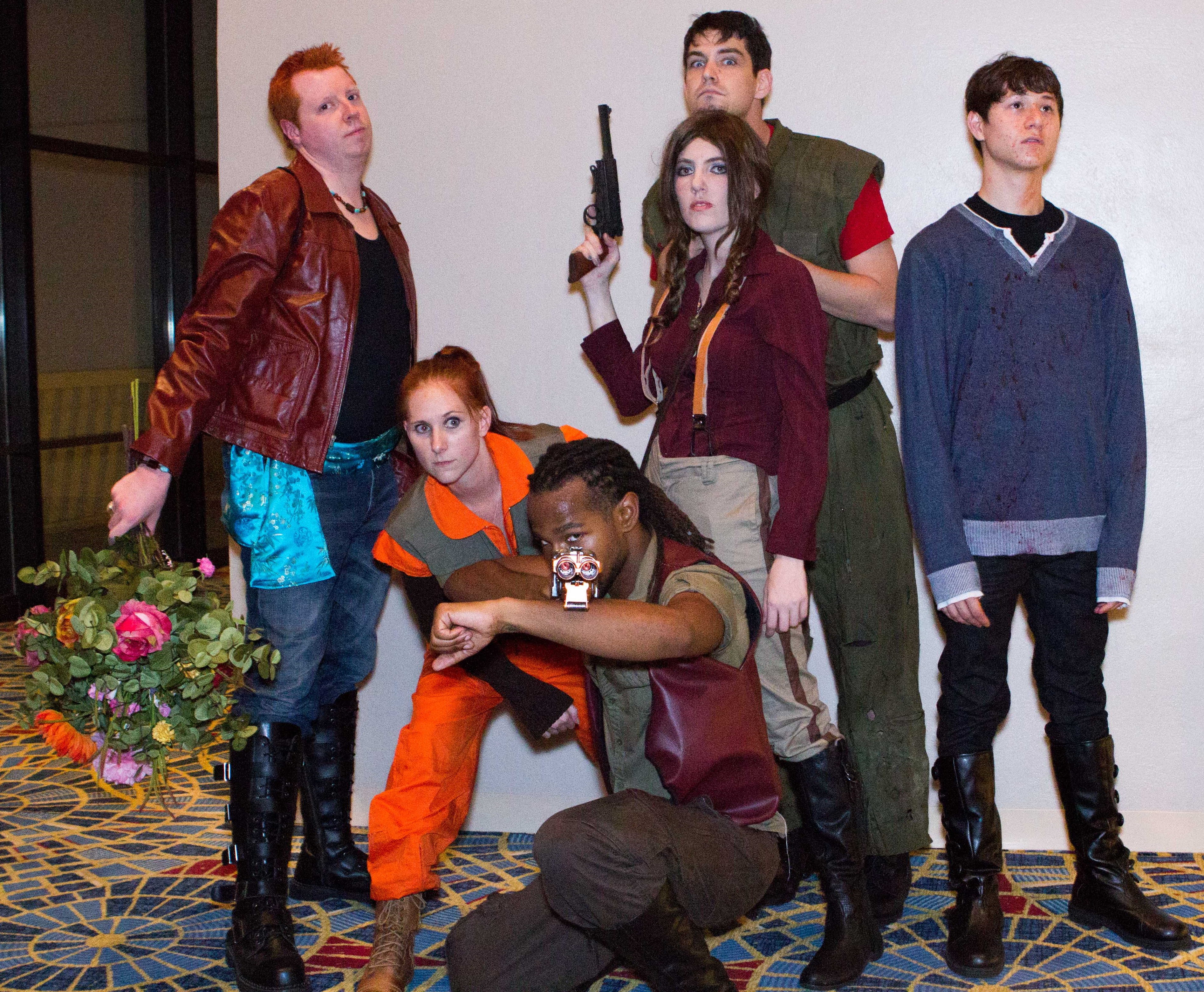 Dragon*Con 2013: Rule 63 Firefly Group.